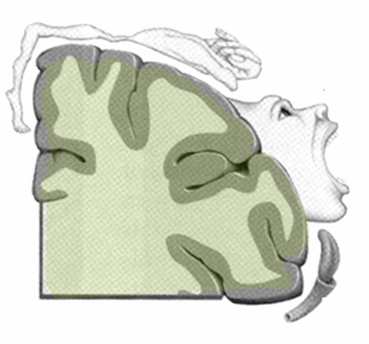 The "motor homunculus". The body surface is projected onto the gyrus precentralis (coronal section of the right hemisphere).